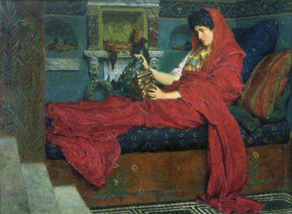 Agrippina with the Ashes of Germanicus